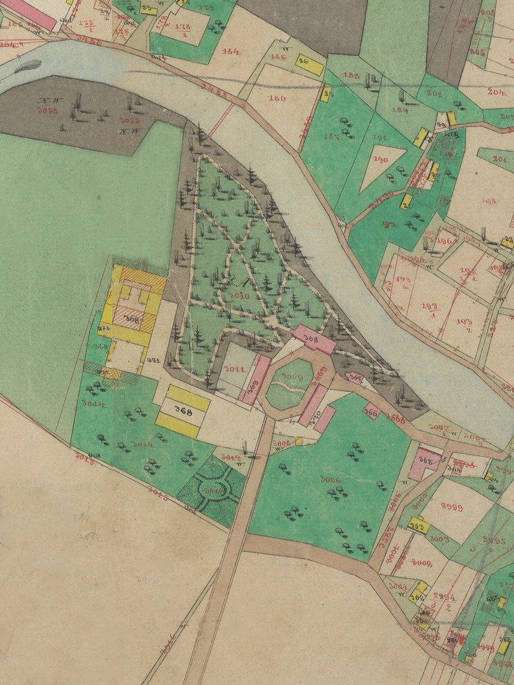 Manor house in Krościenko Wyżne on a map from 1851